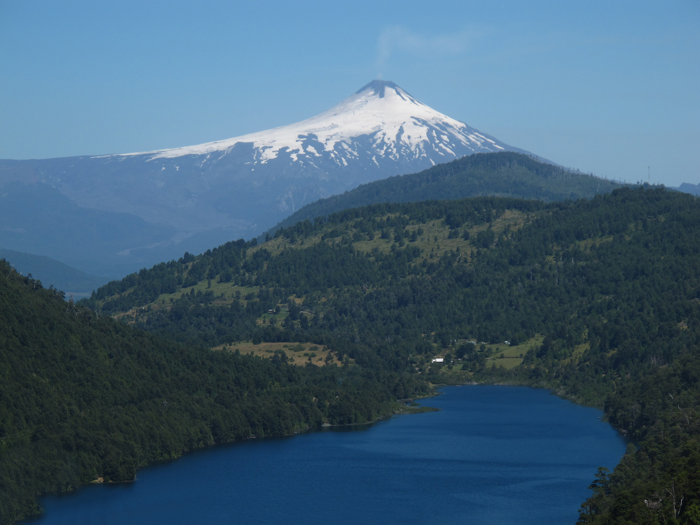 Tinquilco Lake with the Villarica Volcano behind it in the Huerquehue National Park (Chile)